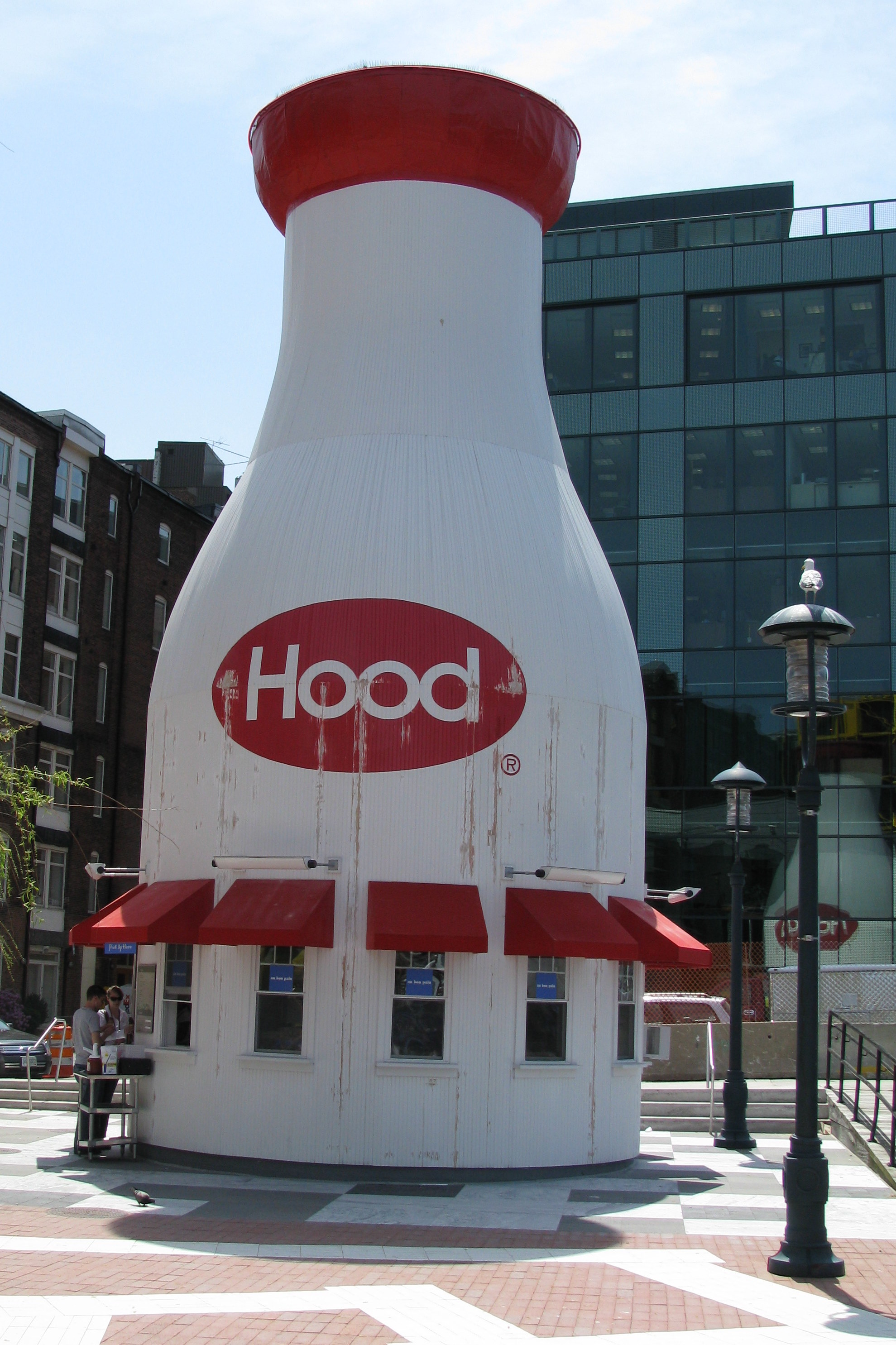 The Hood Milk Bottle in front of Boston Children's Museum